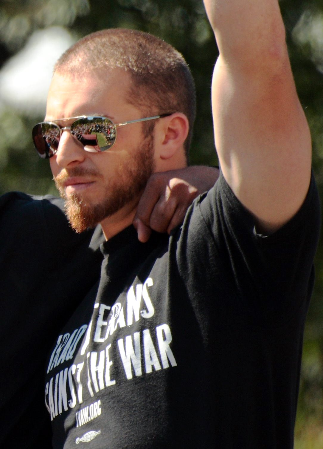 Adam Kokesh (right), Reverend Lennox Yearwood, and Geoff Millard speak to a crowd near the White House at the September 15, 2007 anti-war protest in Washington, D.C.